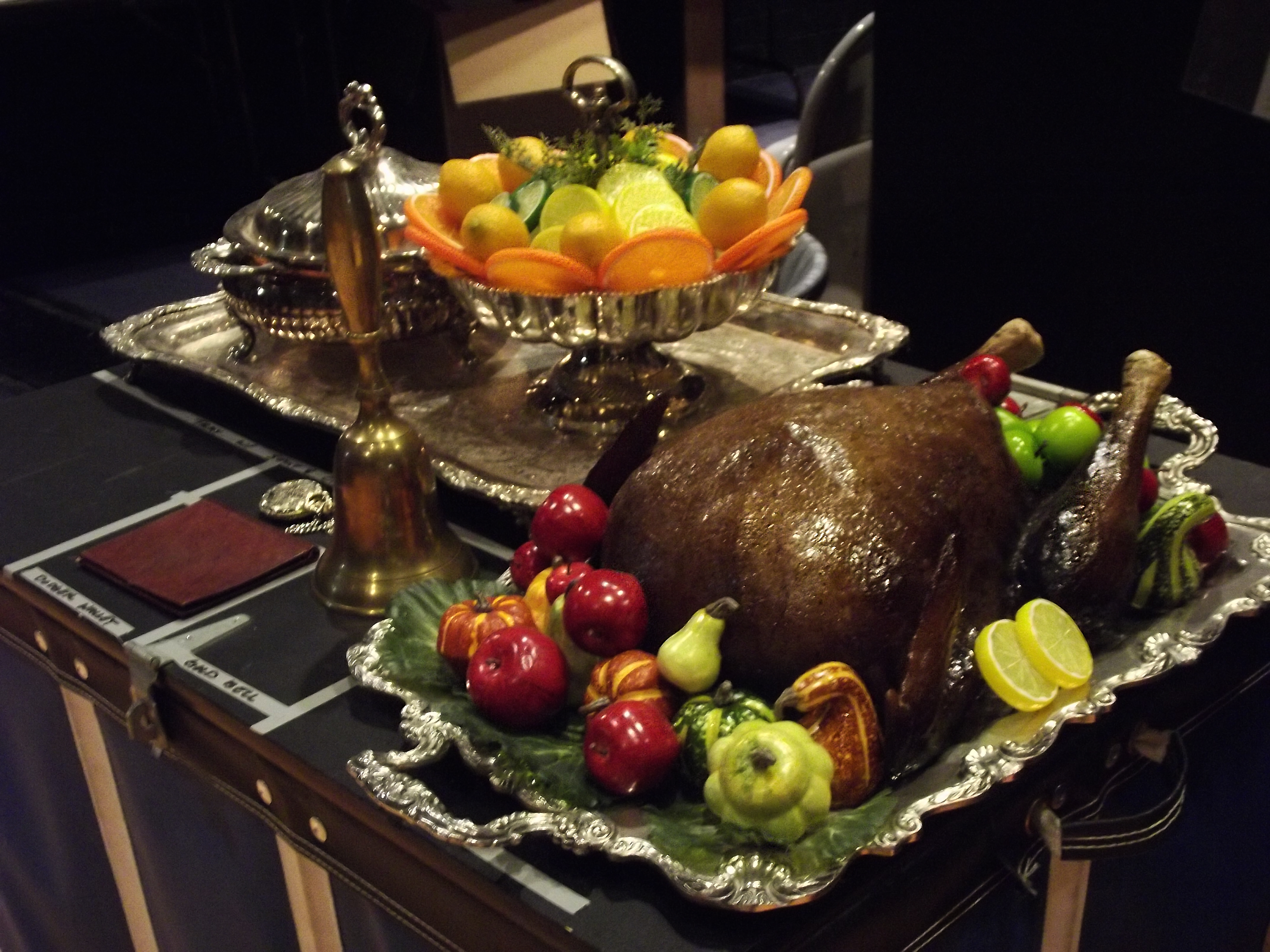 Non practical, un-edible food props sit backstage on the "prop table" before the show "Oliver" at Saccramtno Music Circus 2011. Food the orphans do not get, set a mood during the number "Food Glorious Food".